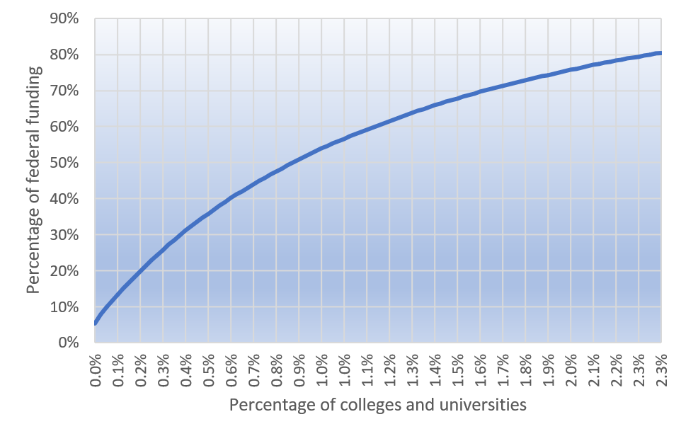 distribution of federal funding money on the 2% best bestowed colleges and universities; data the following 17 schools receive 40% of all Federal Funding: 1. Johns Hopkins U, 2. U Washington, Seattle, 3. U Michigan, Ann Arbor, 4. Stanford University, 5. U North Carolina, Chapel Hill, 6. U Pennsylvania, 7. Columbia University, 8. UC San Diego, 9. Duke U, 10. U Pittsburgh, 11. UC San Francisco, 12. Georgia Institute of Technology, 13. Harvard U, 14. U. Wisconsin, Madison, 15. Yale U, 16. Penn State, 17. UCLA.